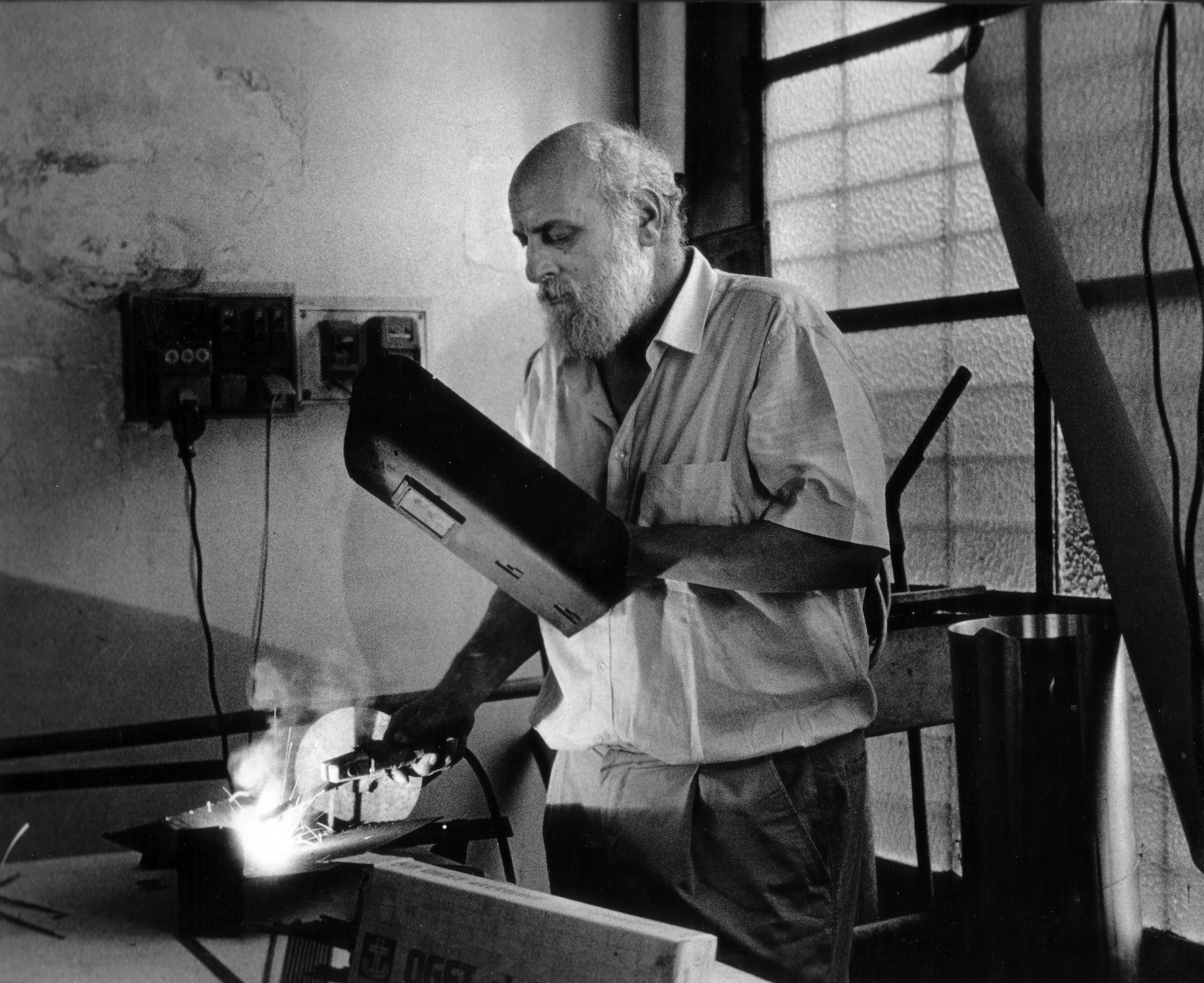 Nerone Giovanni Ceccarelli at works